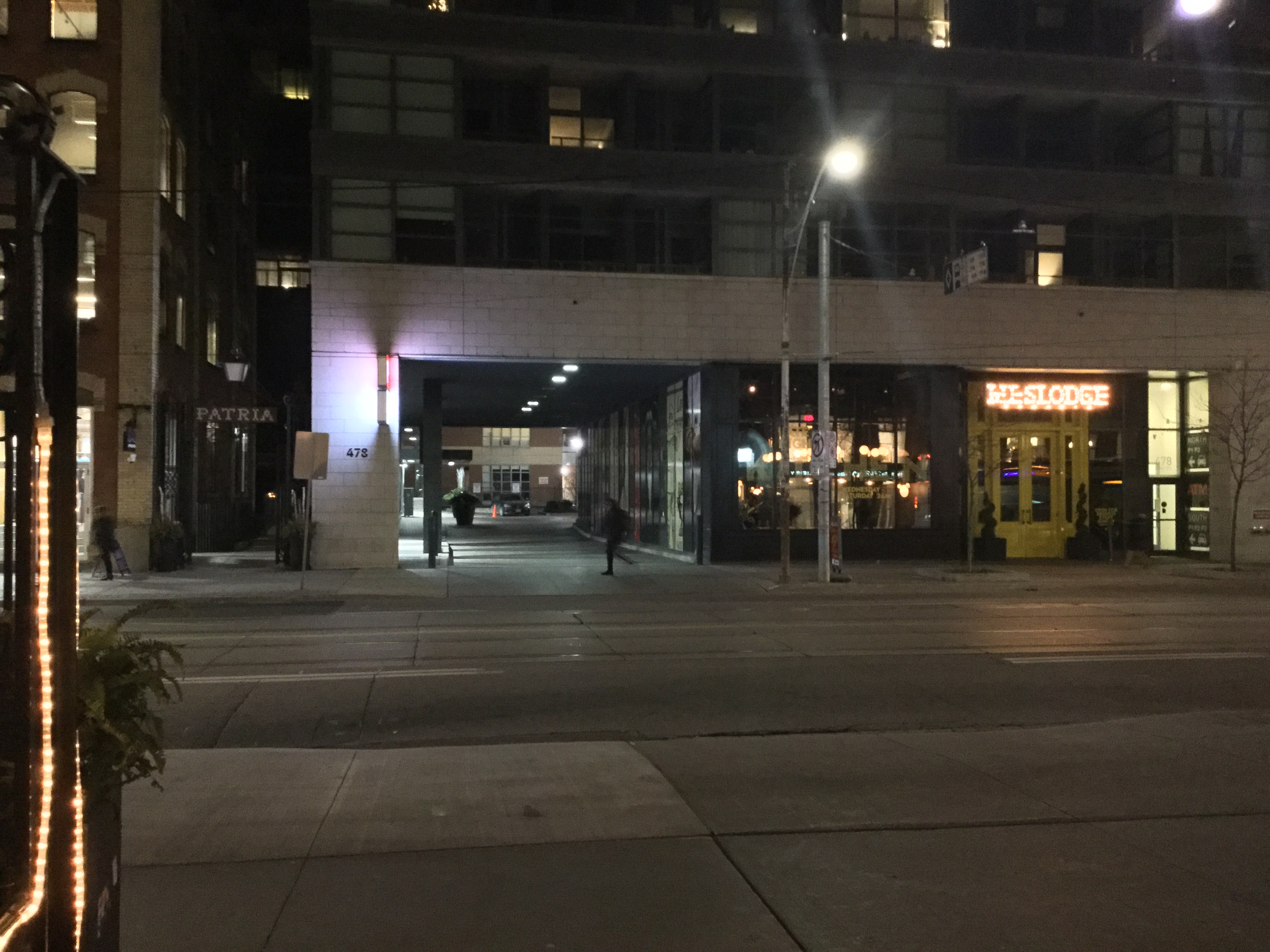 Weslodge Saloon and Patria restaurants in Toronto during December 2015.